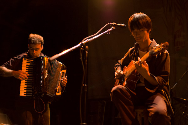 Low res, unprocessed.